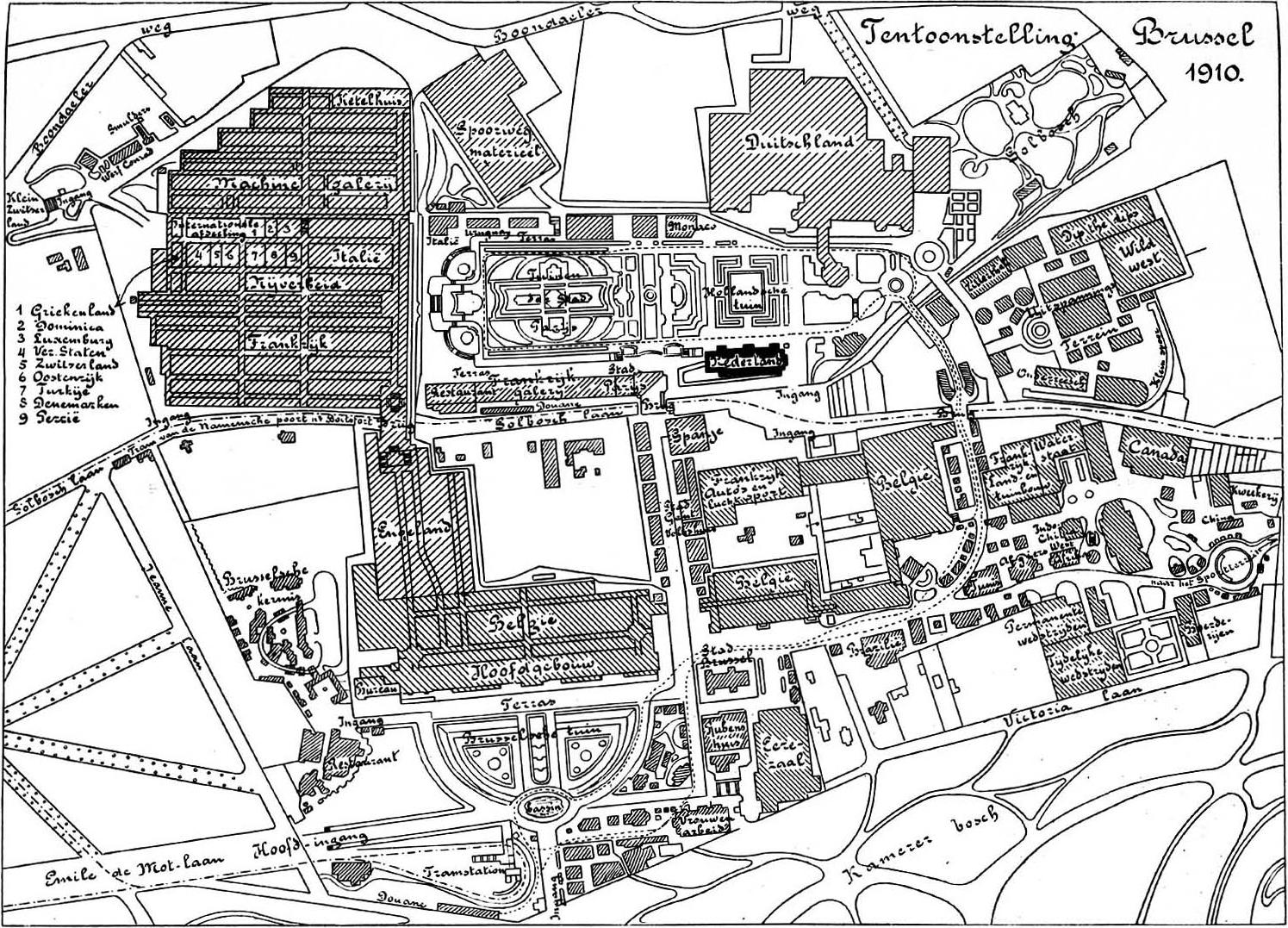 1919 Brussels World Fare, plan.